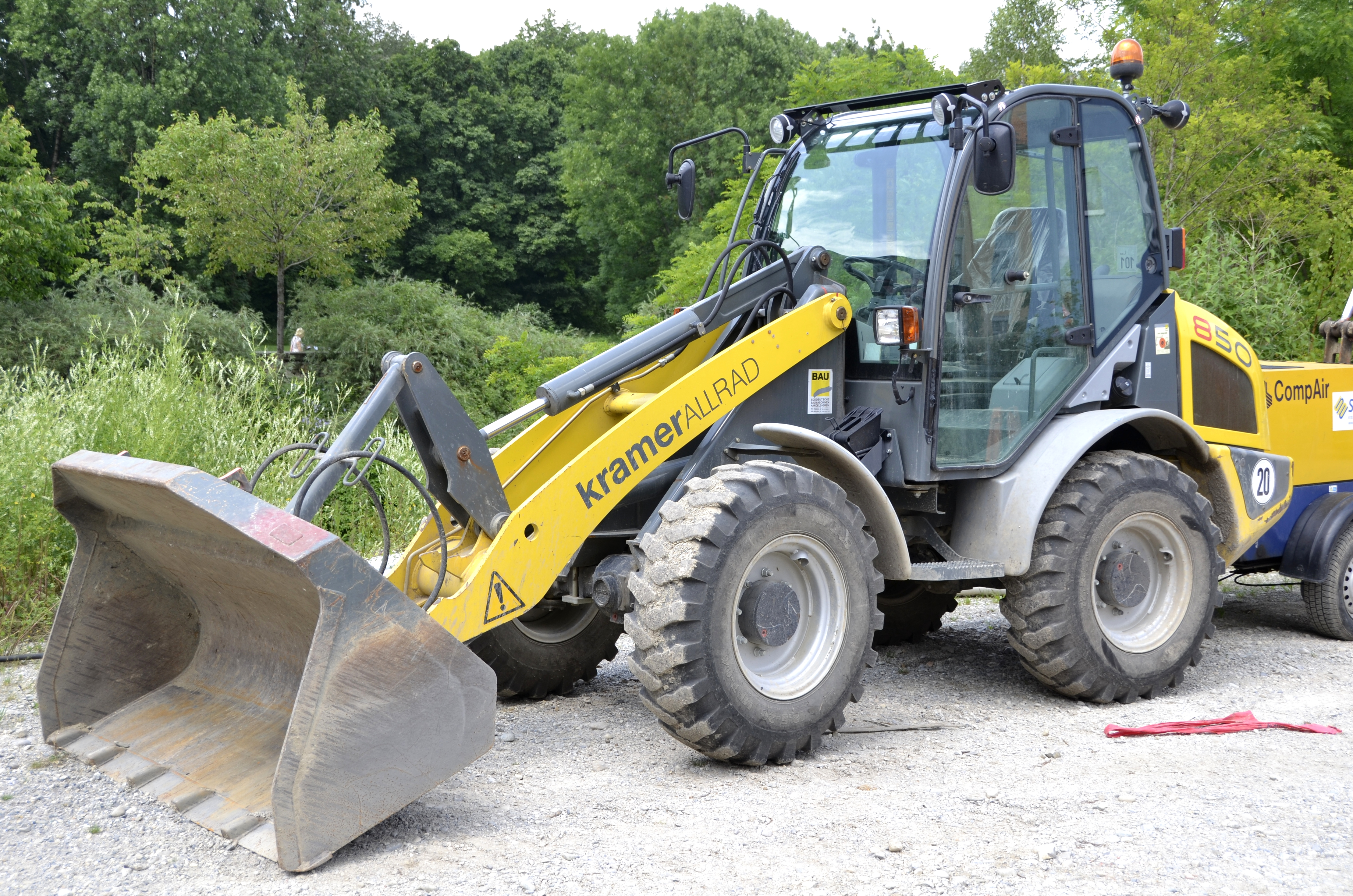 Kramer Allrad 850 loader.